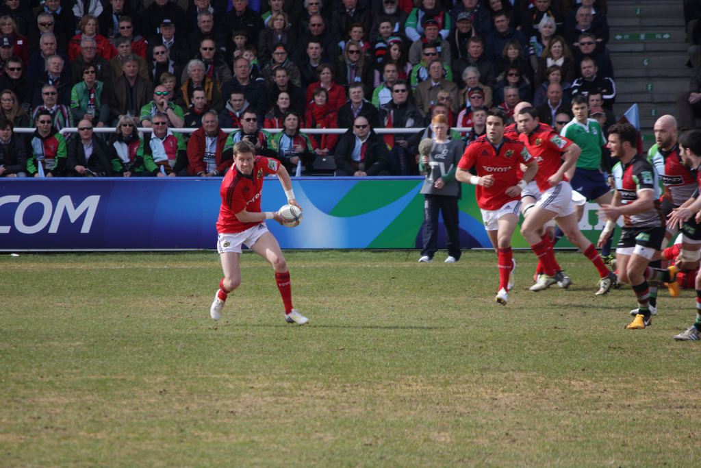 Munster's Ronan O'Gara playing against Harlequins in 2013.